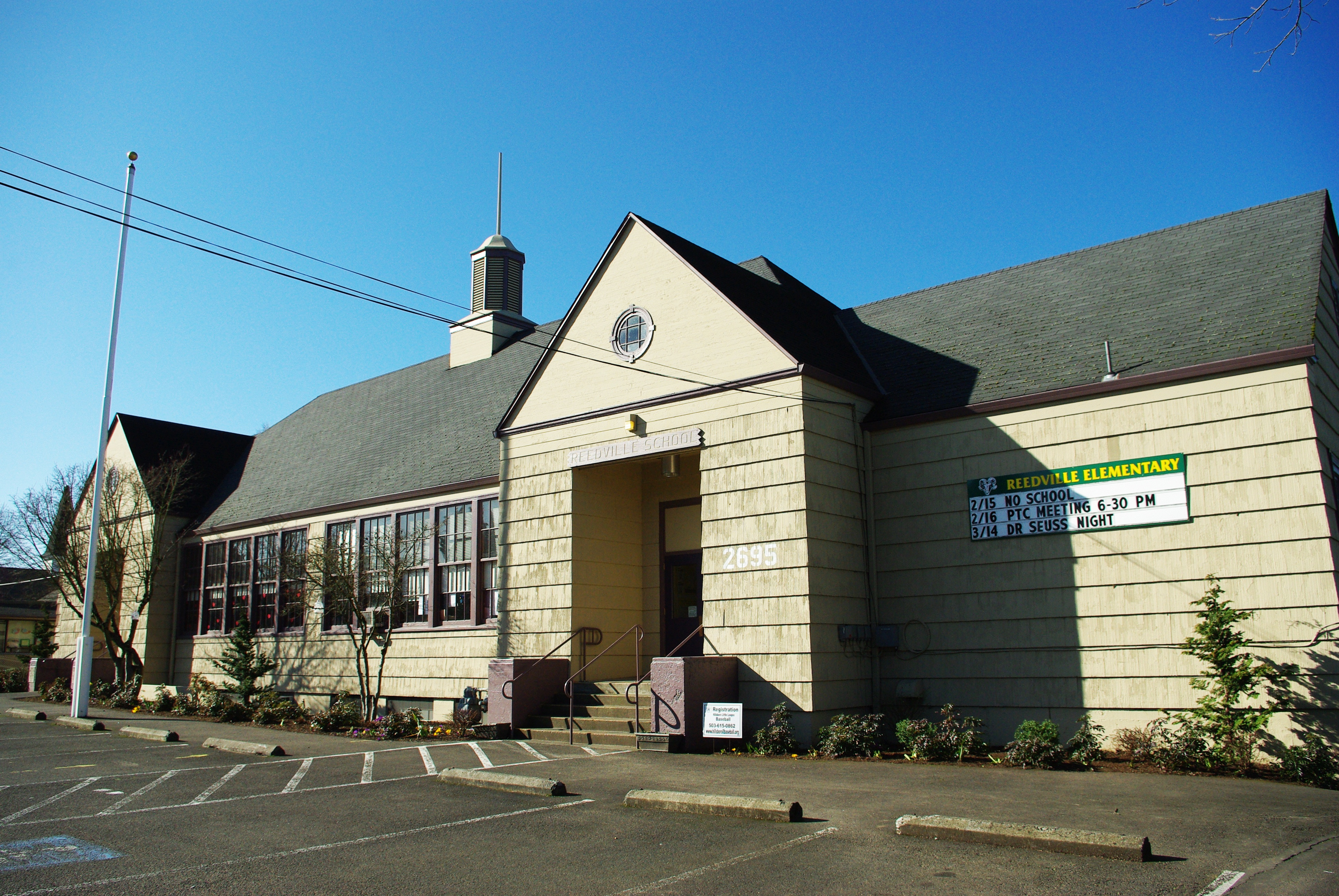 Reedville Elementary School in the Reedville, Oregon, area. Part of the Hillsboro School District.